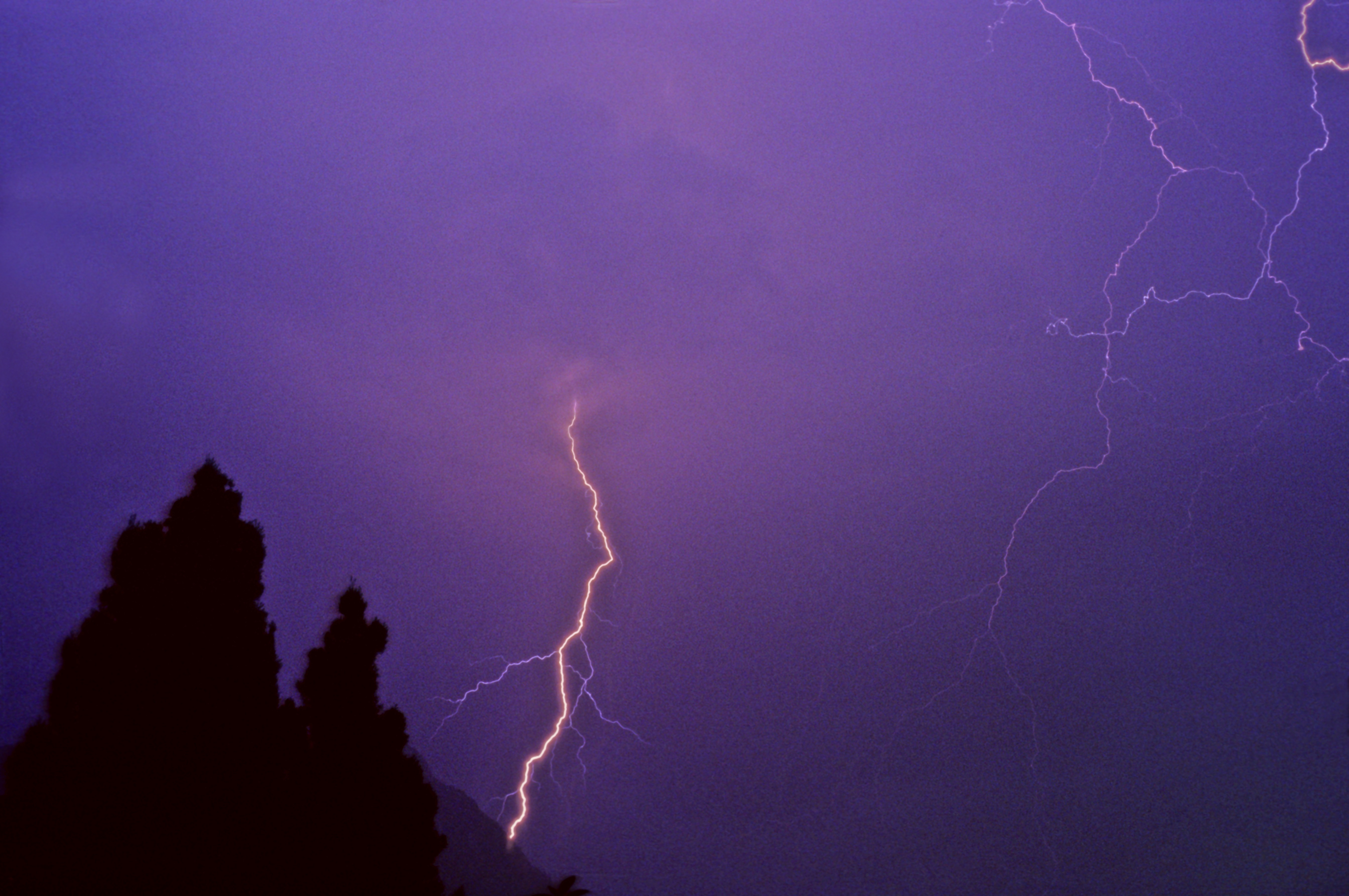 Cloud to ground Lightning strike near Trento, Italy.